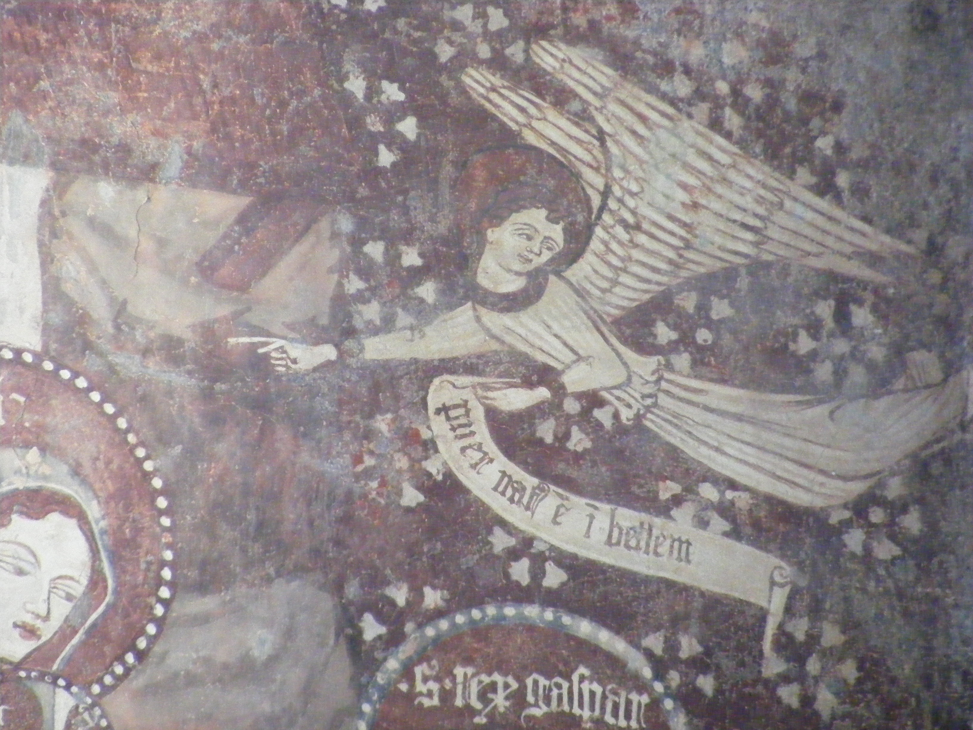 A fresco in the reformat church of Felsőboldogfalva (Feliceni)